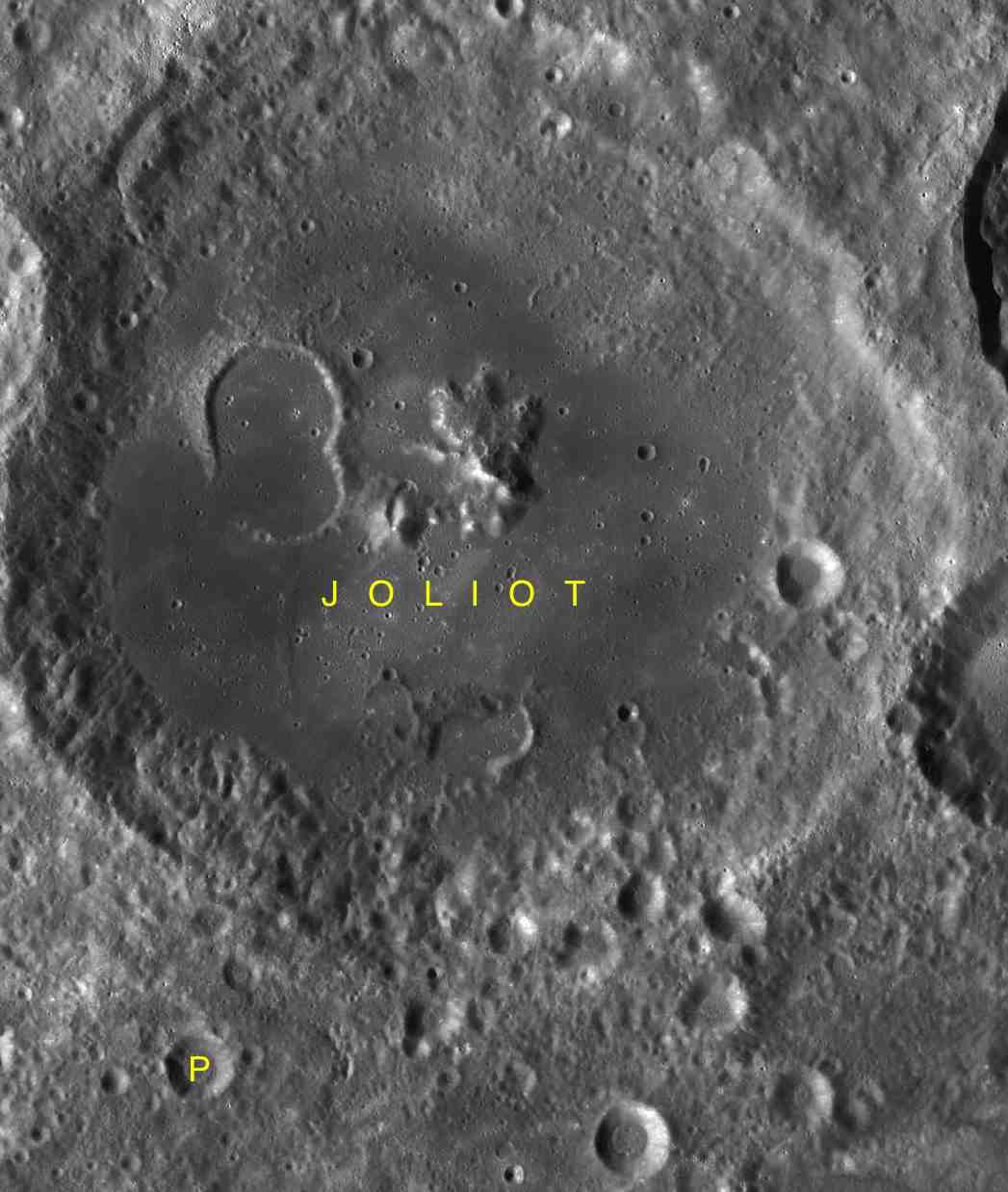 Part of the chart LAC-46 used for the presentation.